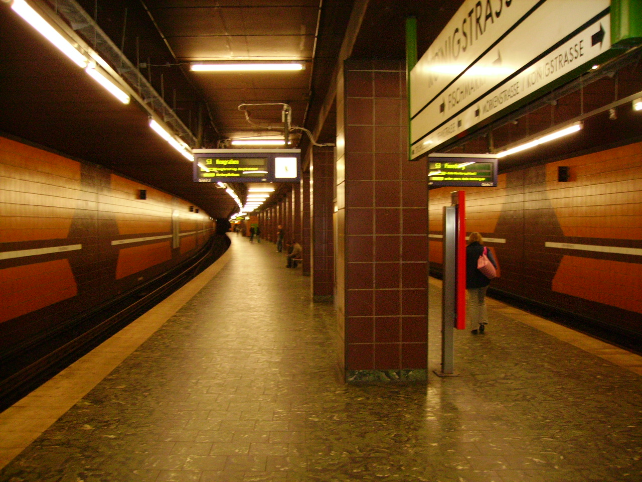 Königstrasse railway station, S-Bahn, platform, Hamburg, Germany